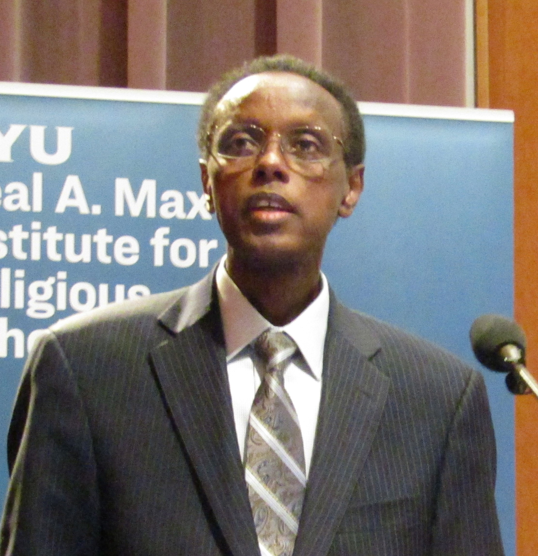 Joseph Sebarenzi speaking at the Forgiveness & Reconciliation symposium.